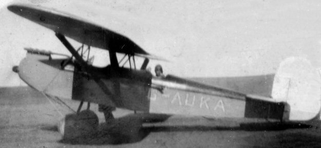 Kookaburra, Date Unknown